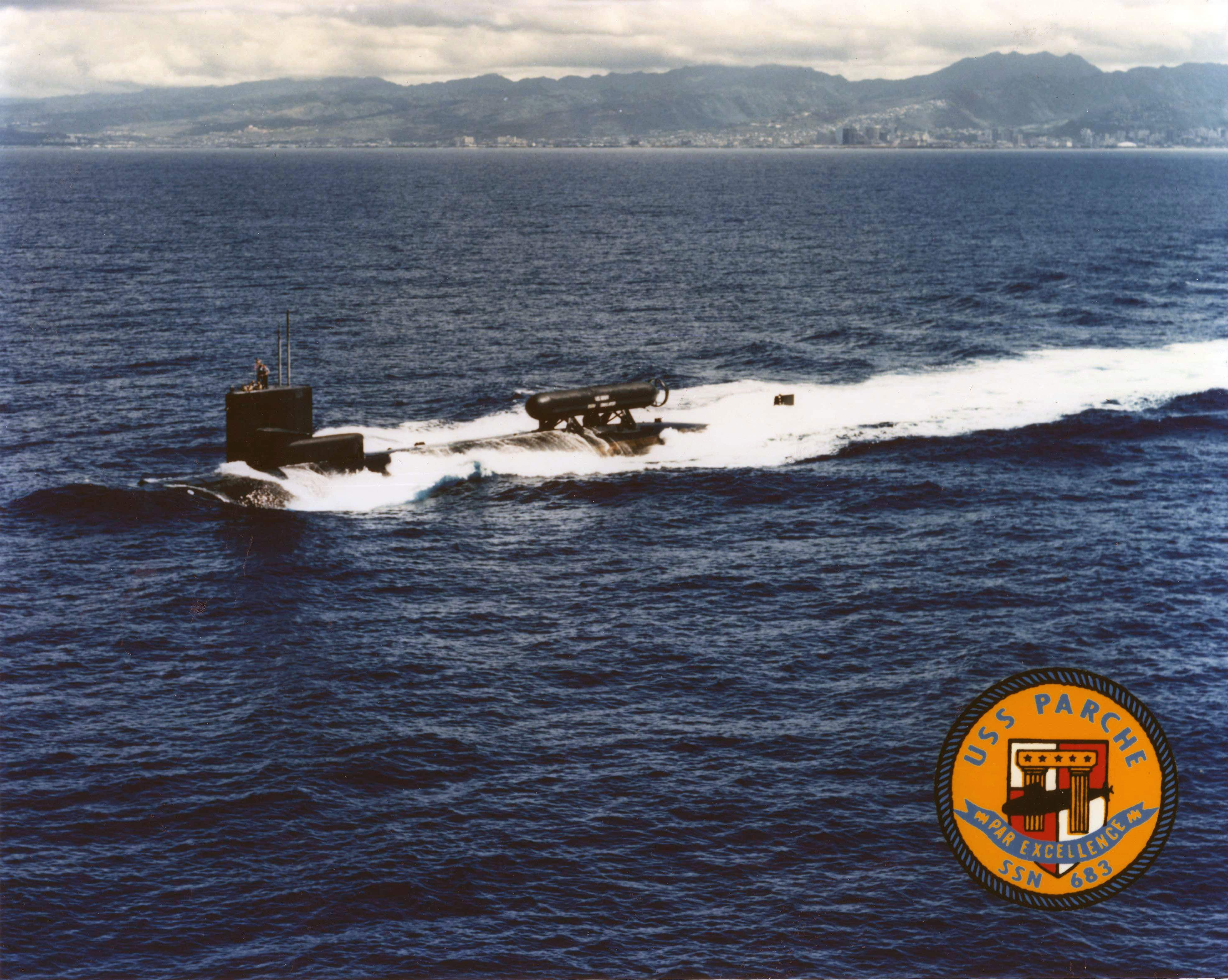 United States Navy attack submarine USS Parche (SSN-683) off Pearl Harbor, Hawaii. The structure on the after part of her deck is a Mystic class Deep Submergence Rescue Vehicle. Her ship's insignia is at lower right.